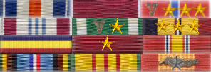 I authored this.